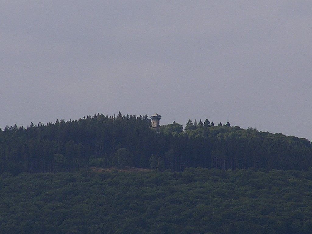 The “Herzberg” near Bad Homburg in the Taunus